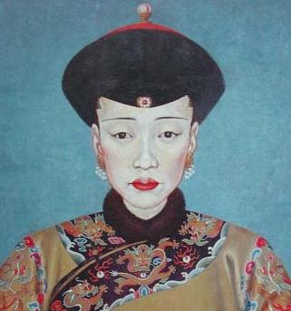 The Official Imperial Portrait of Qing Dynasty's Empresses